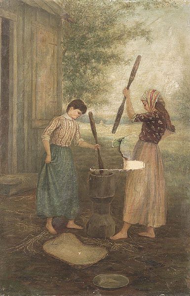 “Rice Girls” 1893